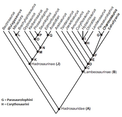 Phylogenetic relationships of Charonosaurus within Hadrosauridae.